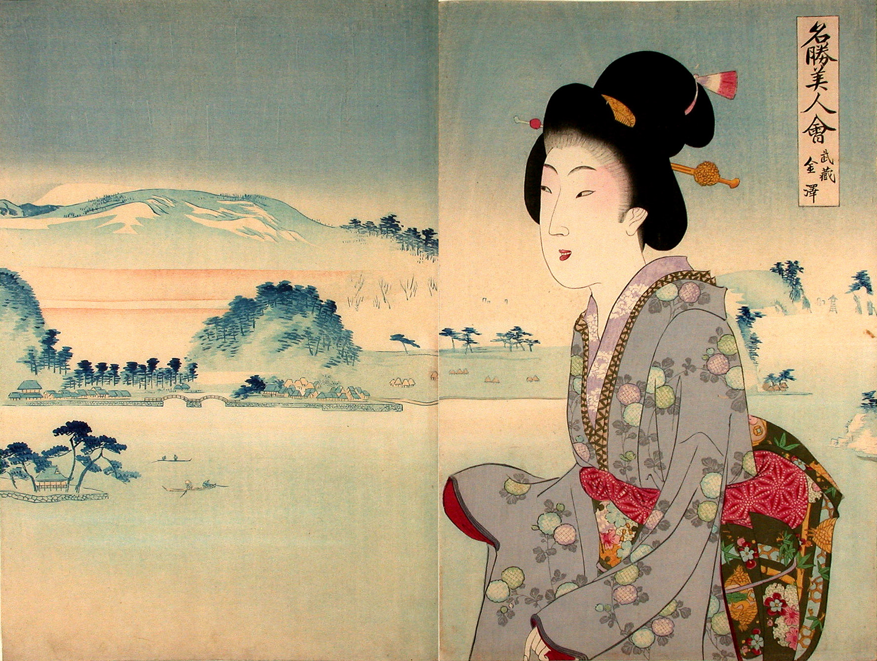 A bijin compared to the beauty of Kanazawa in Musashi Province